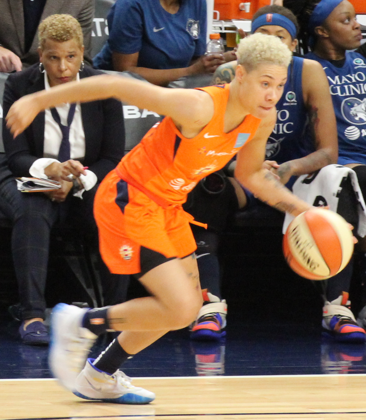 Natisha Hiedeman of the Connecticut Sun